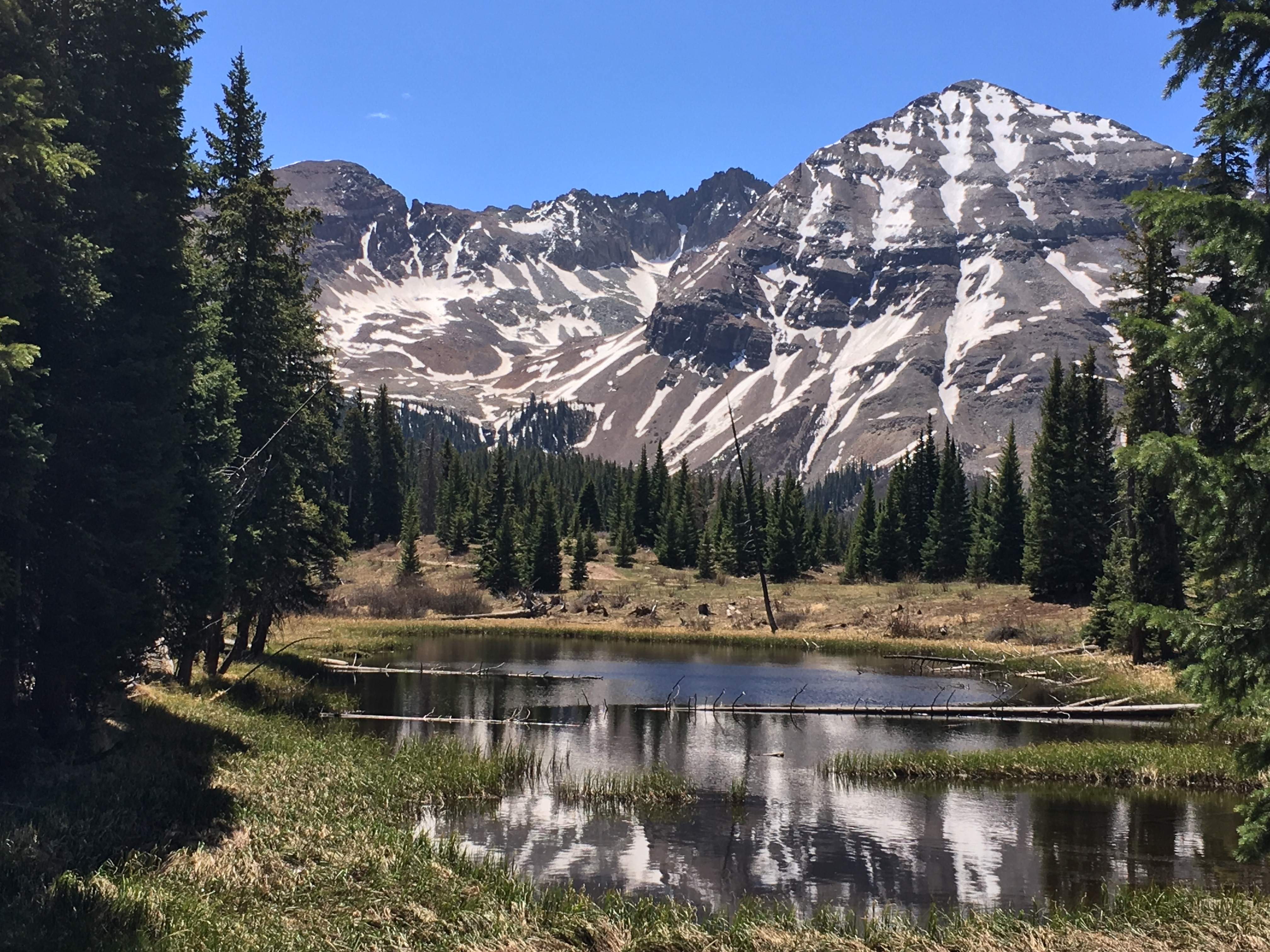 Hesperus Mountain as seen from Sharkstooth Trail